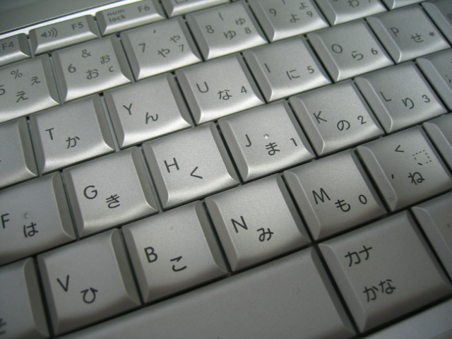 Macbook Pro keyboard sold in Japan.